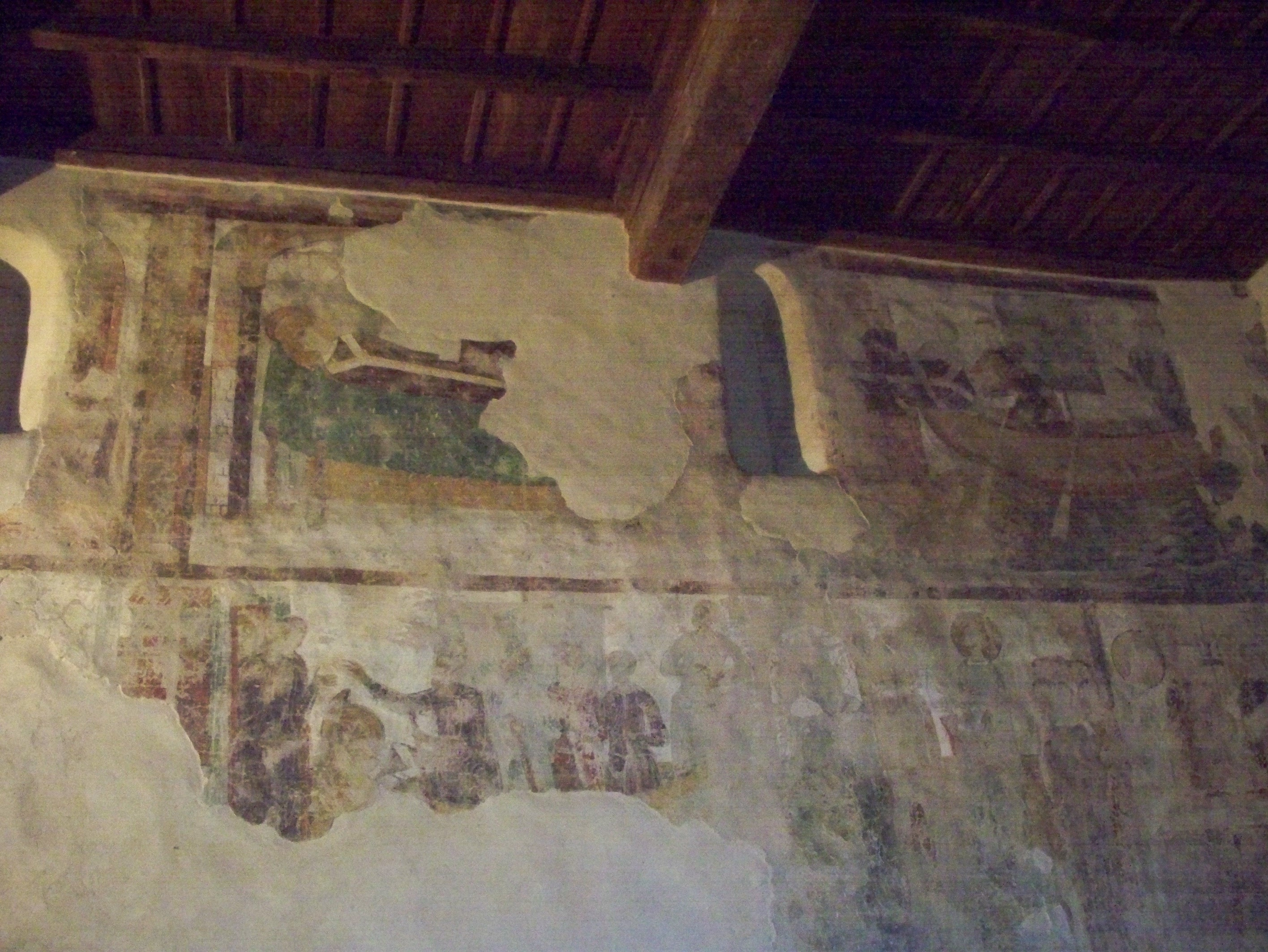 Chiesa di San Martino (Carugo) - affresco